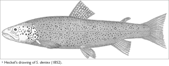 Salmo dentex